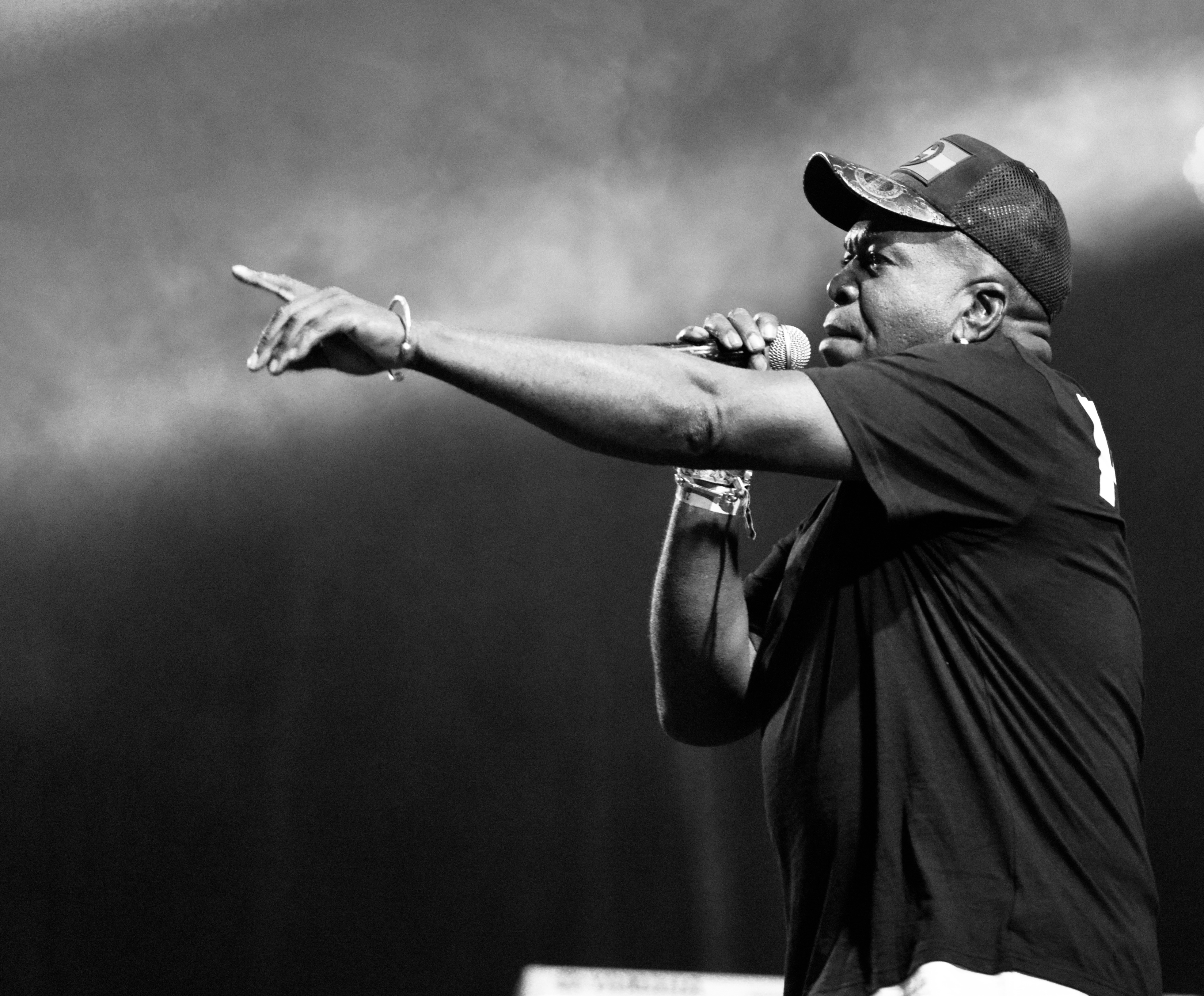 Barrington Levy in concert at Reggae Geel August 3 2018